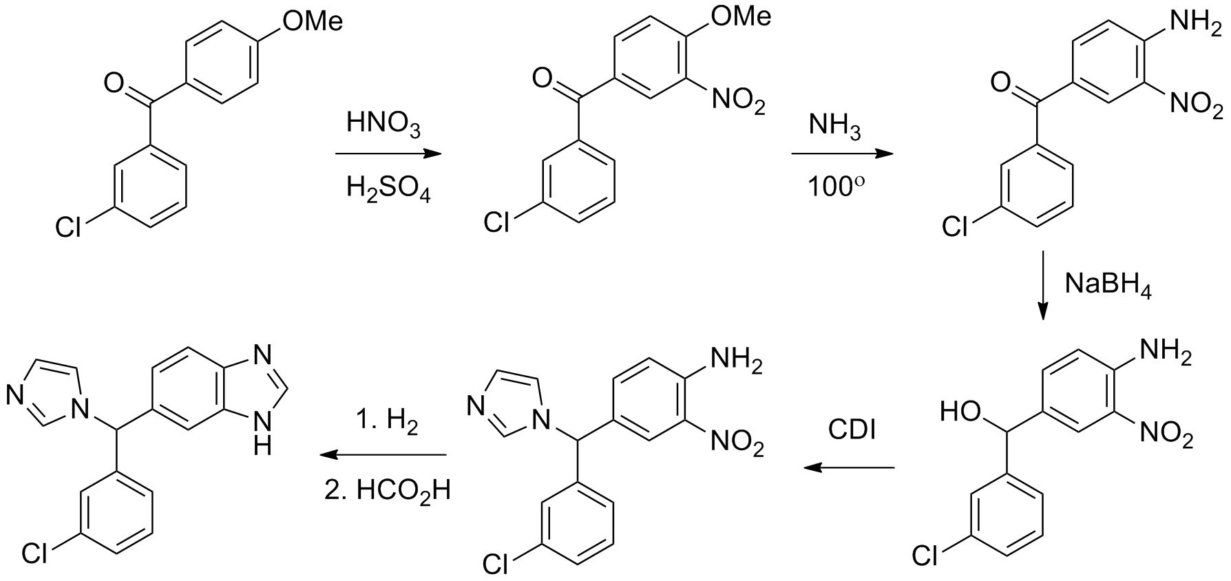 Lednicer book 6.